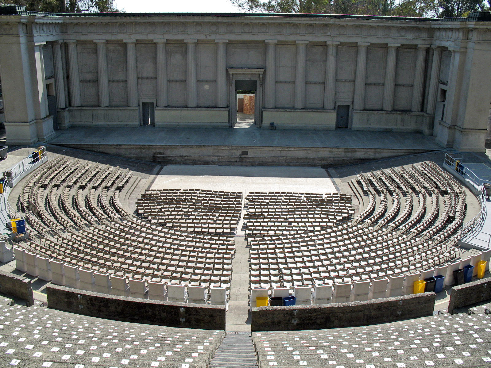 Hearst Greek Theatre, University of California, Berkeley. Photographed 2009-04-26 from the back of the amphitheater. National Register of Historic Places listings in Alameda County, California.